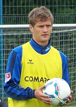 Kai Bülow, TSV 1860 München, Training Grünwalder Straße